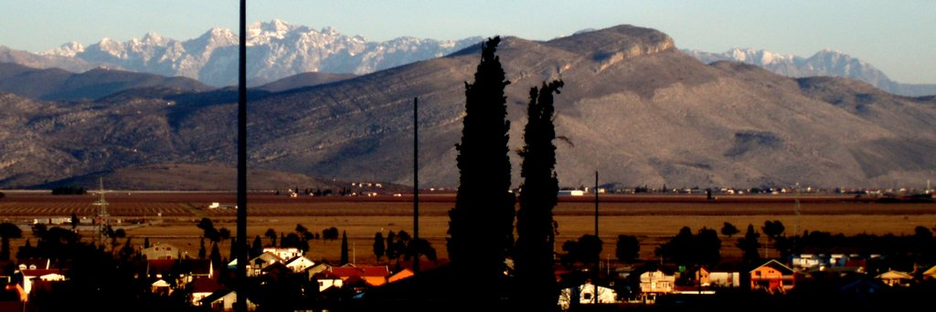 Decic Hill and Dinaric Alps Prokletije. Wiev from Podgorica.